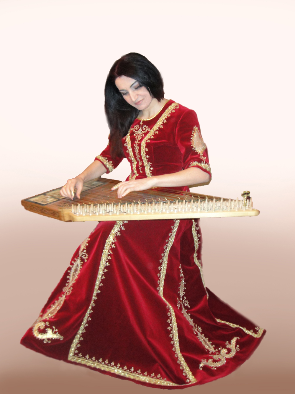 Tsovinar Hovhannisyan (Kanun)